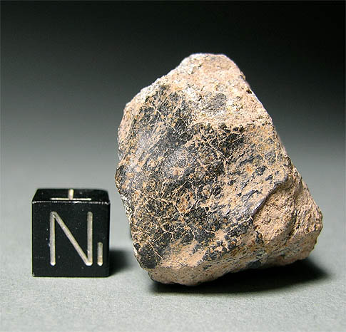 22.70g fragment of the Carancas meteorite fall